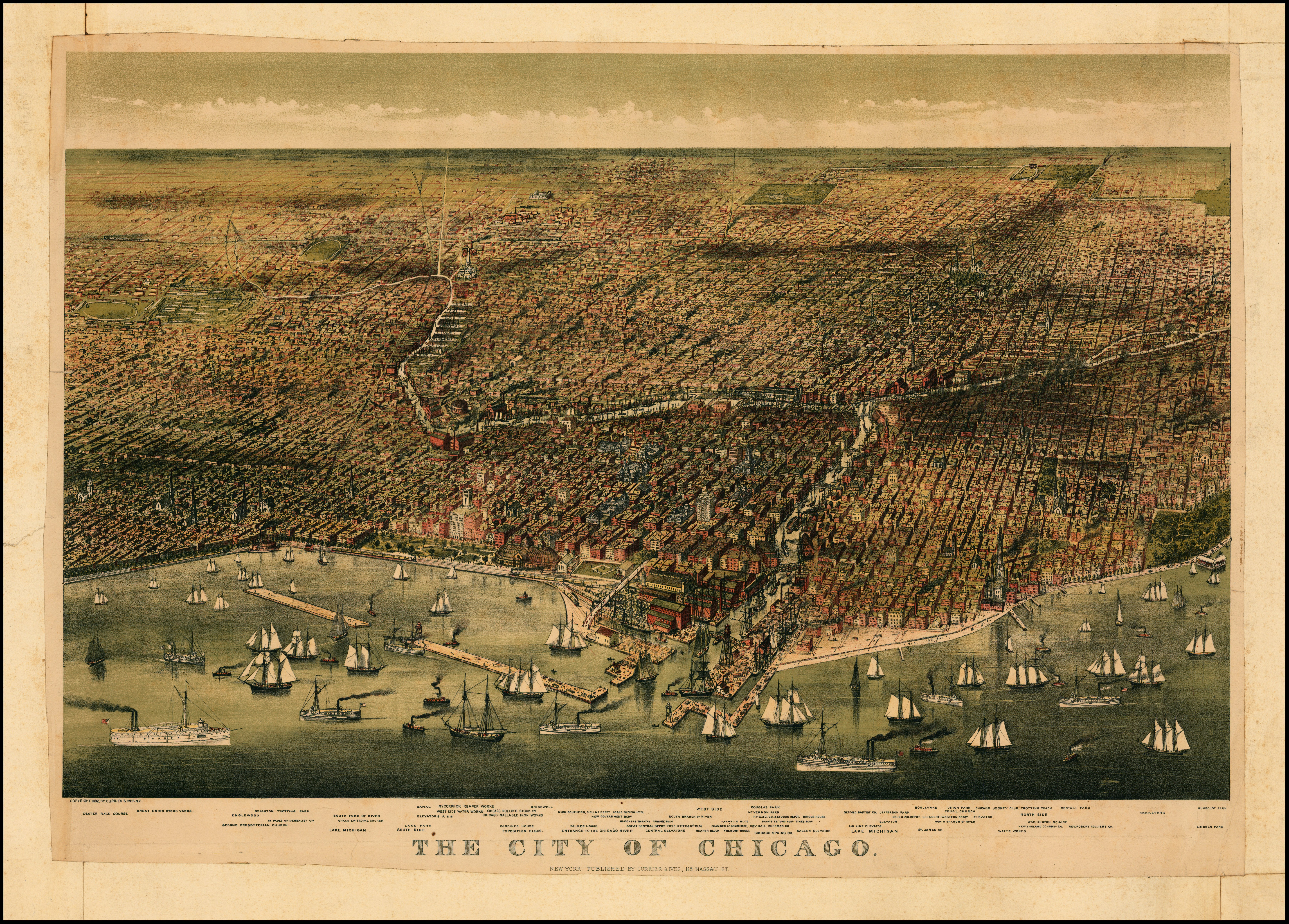 The City of Chicago [Birdseye View]